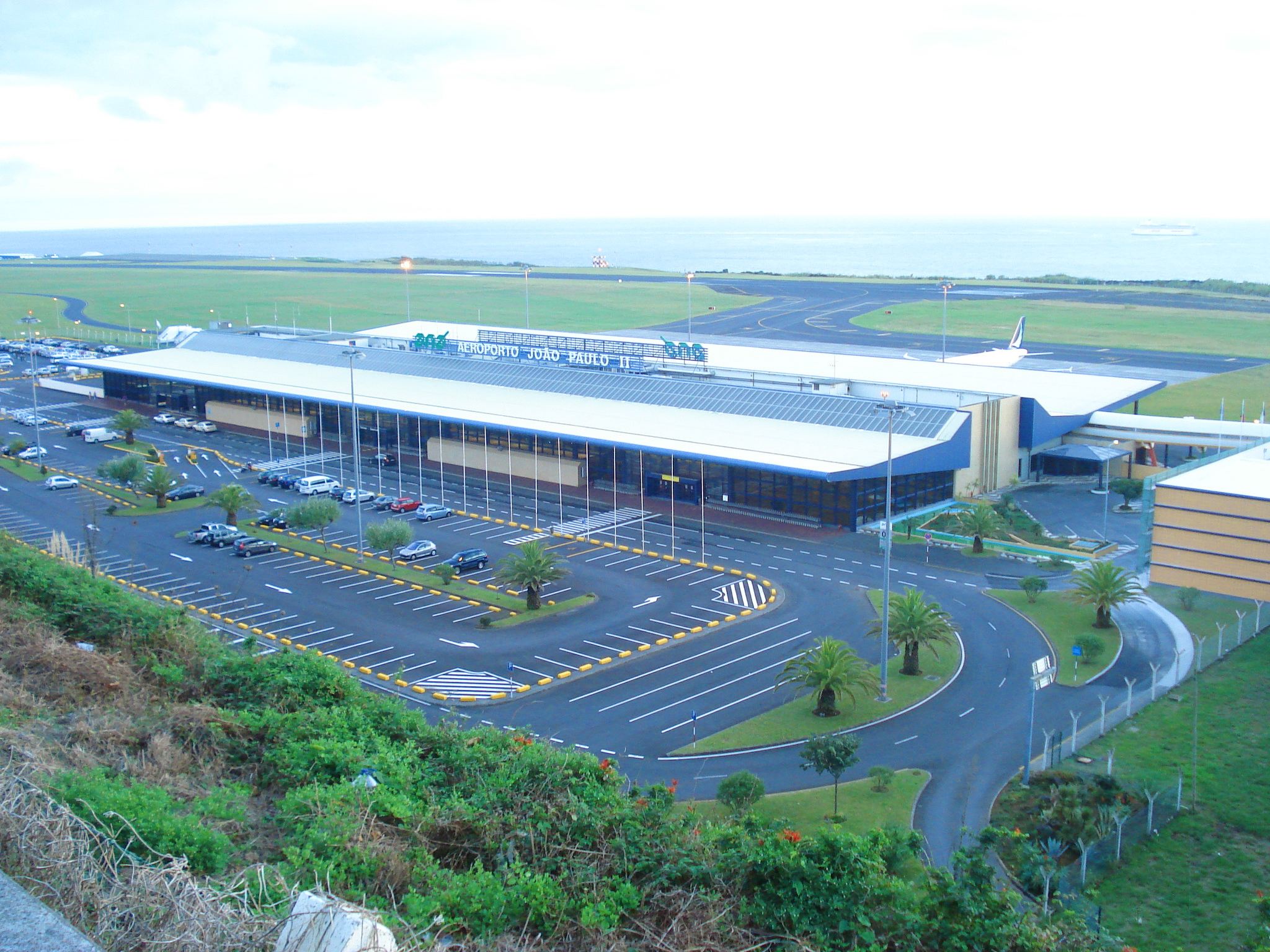 The main terminal building of the João Paulo II International Airport, civil parish of Relva, municipality of Ponta Delgada (Azores), Portugal